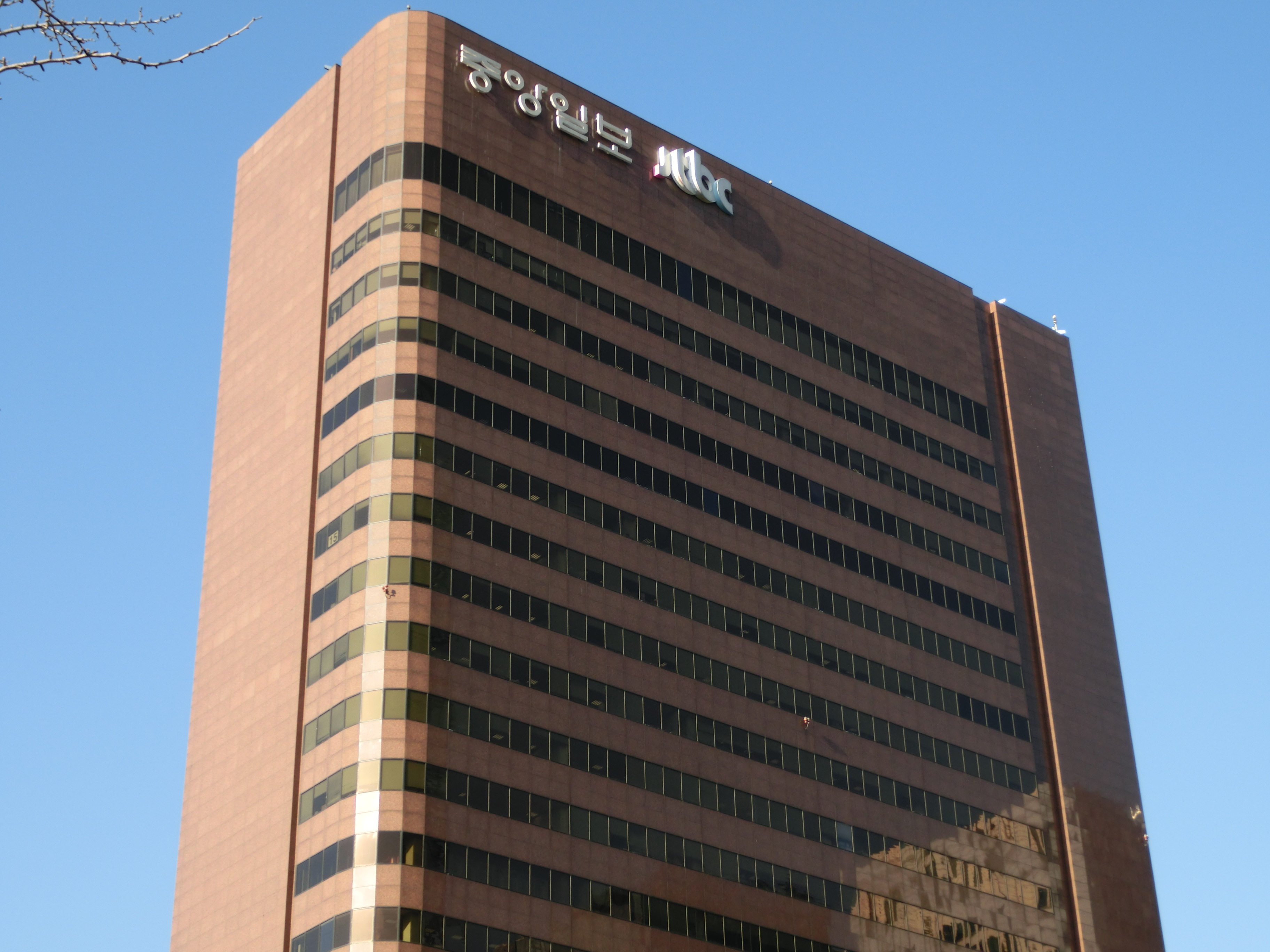 JoongAng Ilbo Head Office